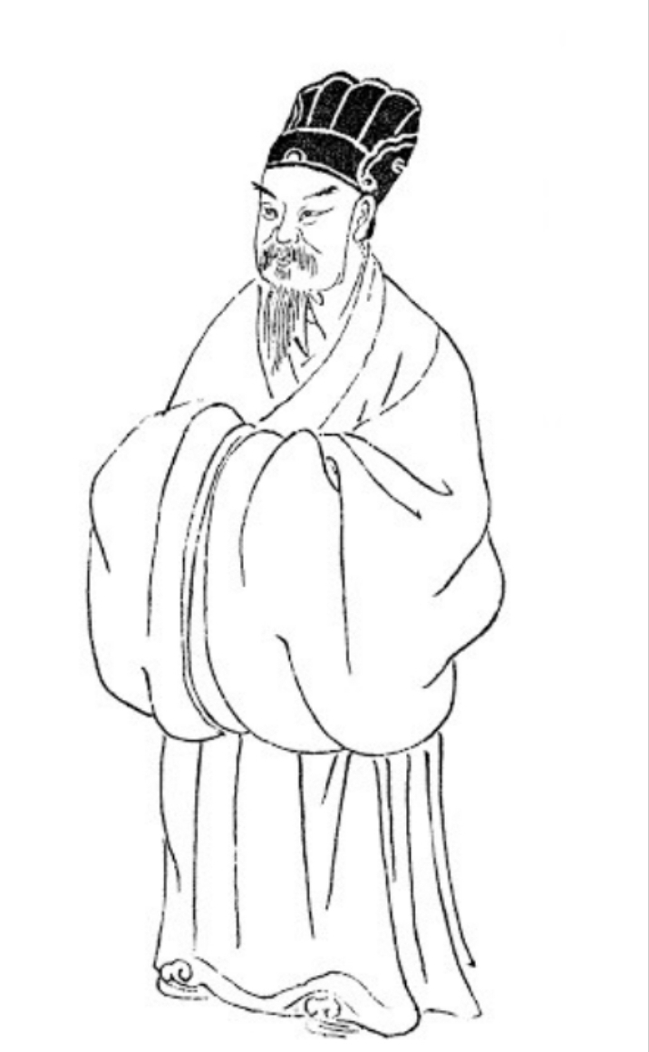 Luo Qin shun, politician, philosopher, confucianism on intellectual of the Ming Dynasty.